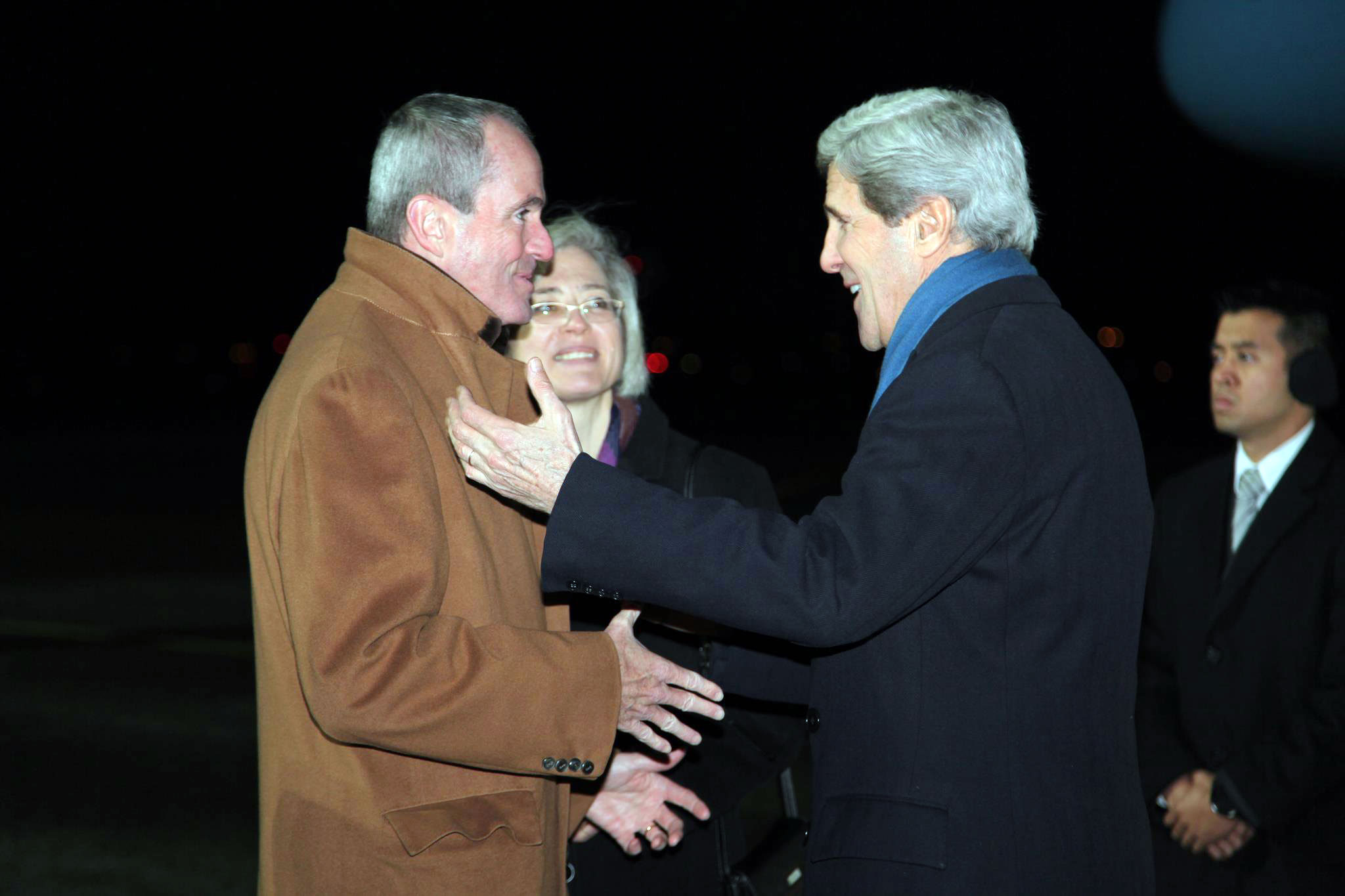 U.S. Secretary of State John Kerry is greeted by U.S. Ambassador to Germany Philip Murphy and German Head of Protocol Claudia Schmitz upon arriving at Tegel Airport in Berlin, Germany, February 25, 2013. [State Department photo/ Public Domain]